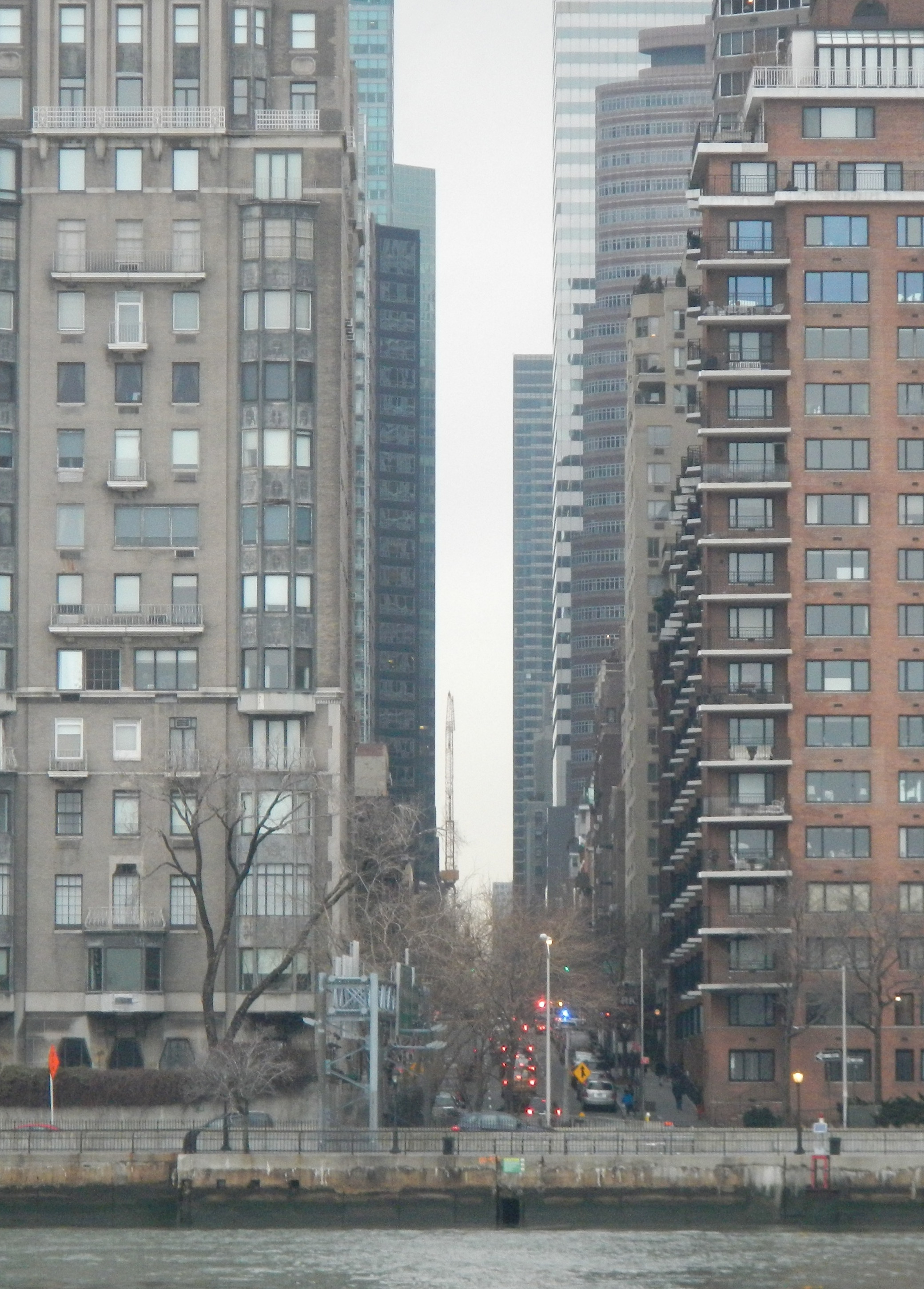 Looking west across East River at urban canyon on a cloudy early afternoon.